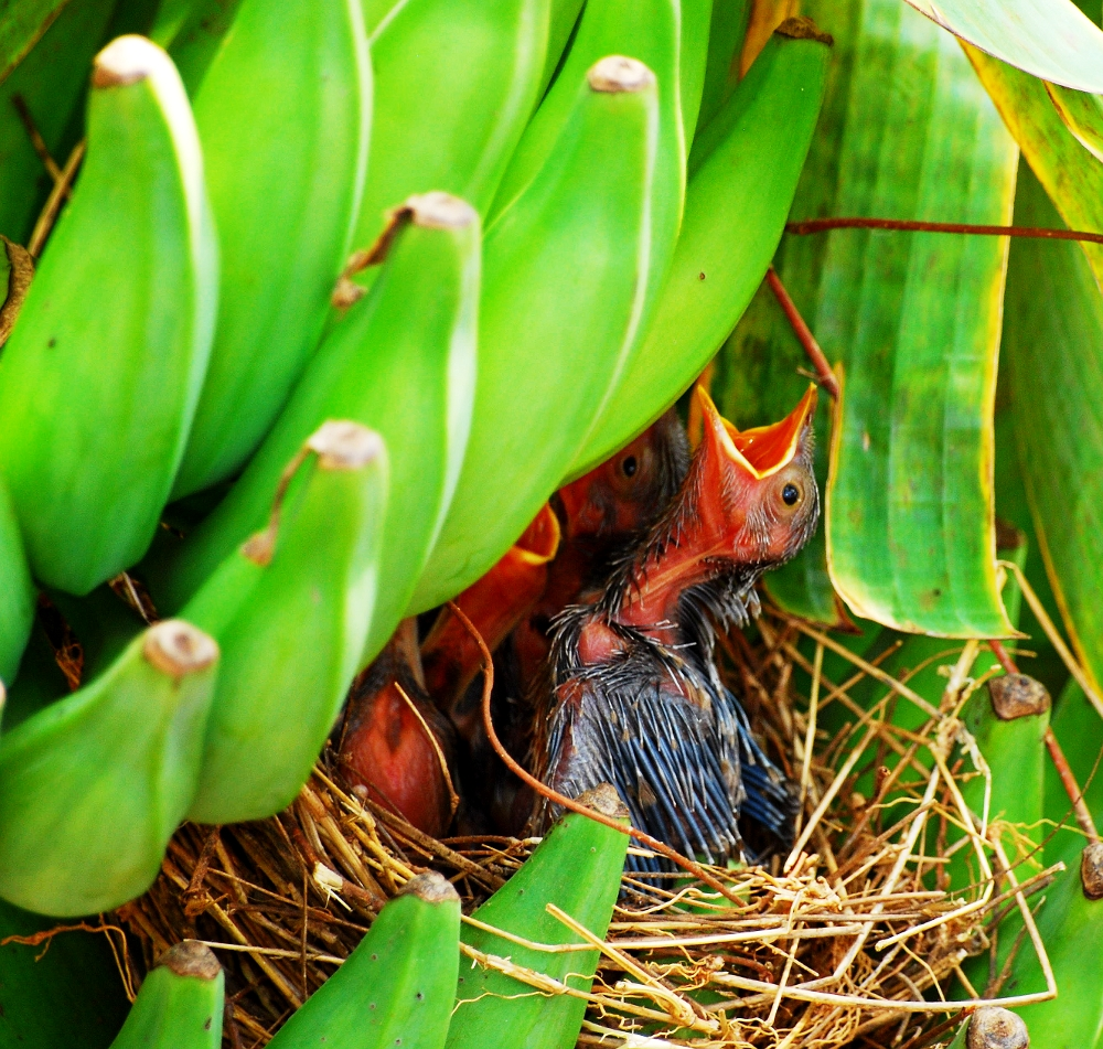 The Jungle Babbler Turdoides striata is an Old World babbler found in South Asia. They are gregarious birds that forage in small groups of six to ten birds, a habit that has given them the popular name of Seven Sisters or Saath bhai in Hindi with cognates in other regional languages which means "seven brothers".